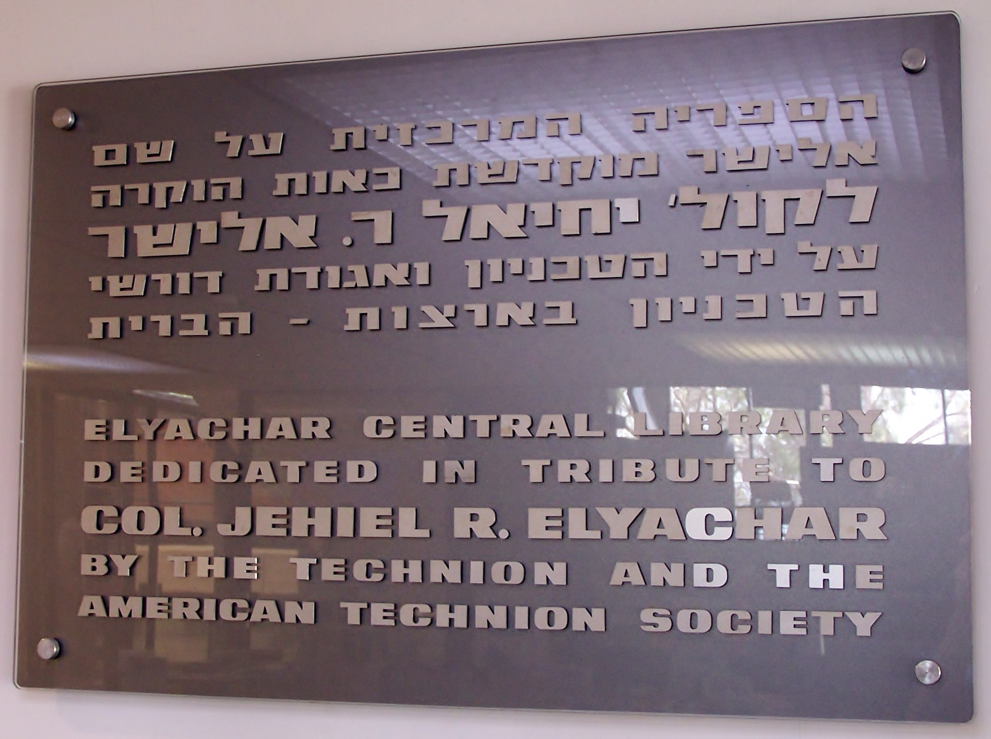 A commemorative plaque in the Elyachar Central Library, Technion, in memory of Jehiel Elyachar, who donated for the building of the library.